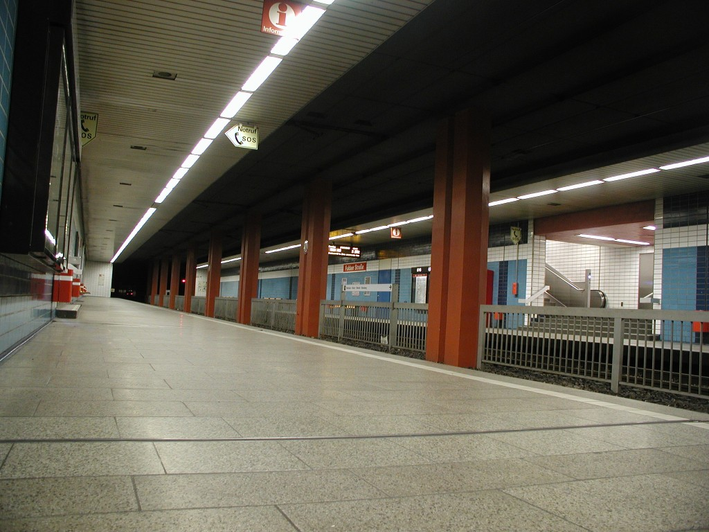 Fuldaer Straße Subway Station in Cologne